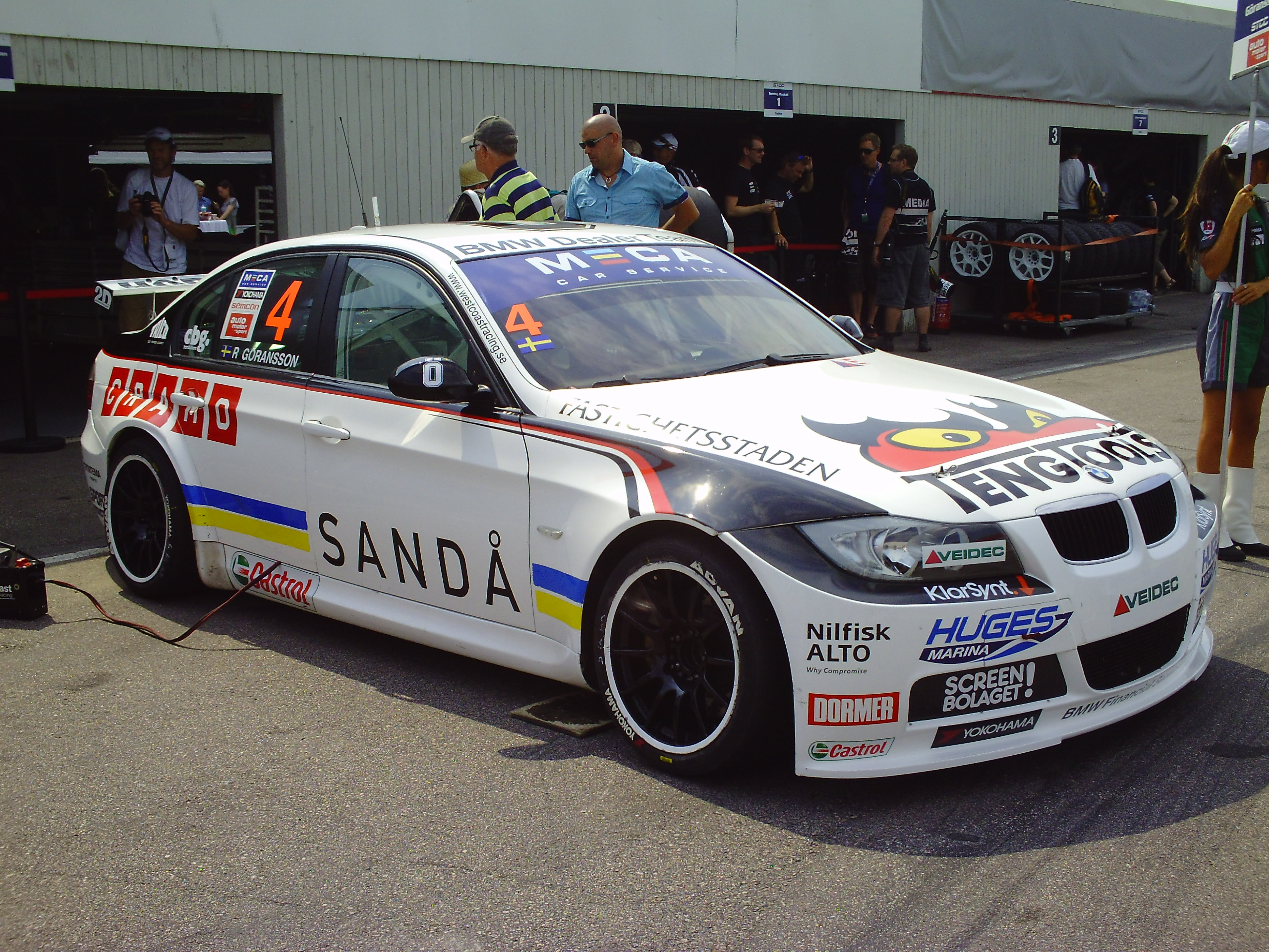 Richard Göransson's BMW 320si for WestCoast Racing in Swedish Touring Car Championship at Falkenbergs Motorbana 2010.